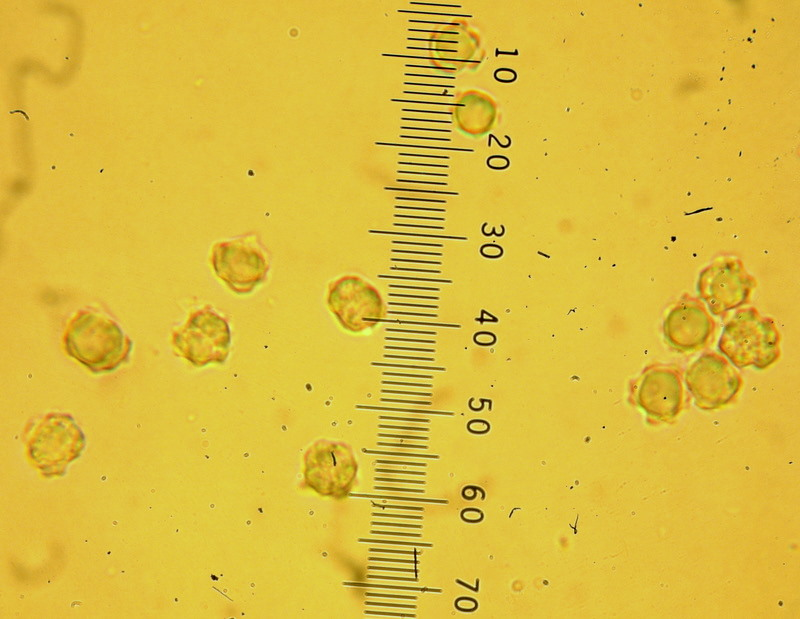 Sarcodon imbricatus (L.) P. Karst. Location: Fraser Experimental Forest, Grand Co., Colorado, USA Observation Notes: This species does have rather distinctive spores. David Arora in MD likens them to a “Maltese Cross”.[admin – Tue Aug 17 14:06:46 0000 2010]: Changed location name from ‘Fraser Experimental Forest, Grand County, Colorado’ to ‘Fraser Experimental Forest, Grand Co., Colorado, USA’ For more information about this, see the observation page at Mushroom Observer.